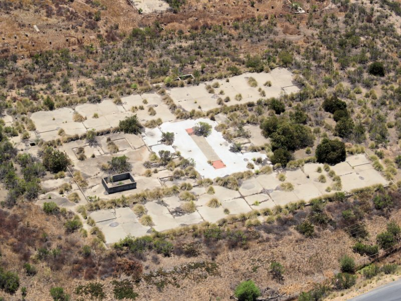 An aerial view of some of the old military building foundations now in ruins on Marine Corps Air Station Miramar Please acknowledge "Phil Konstantin" as the creator of this photograph.